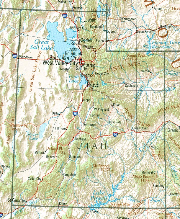 Map of Utah.